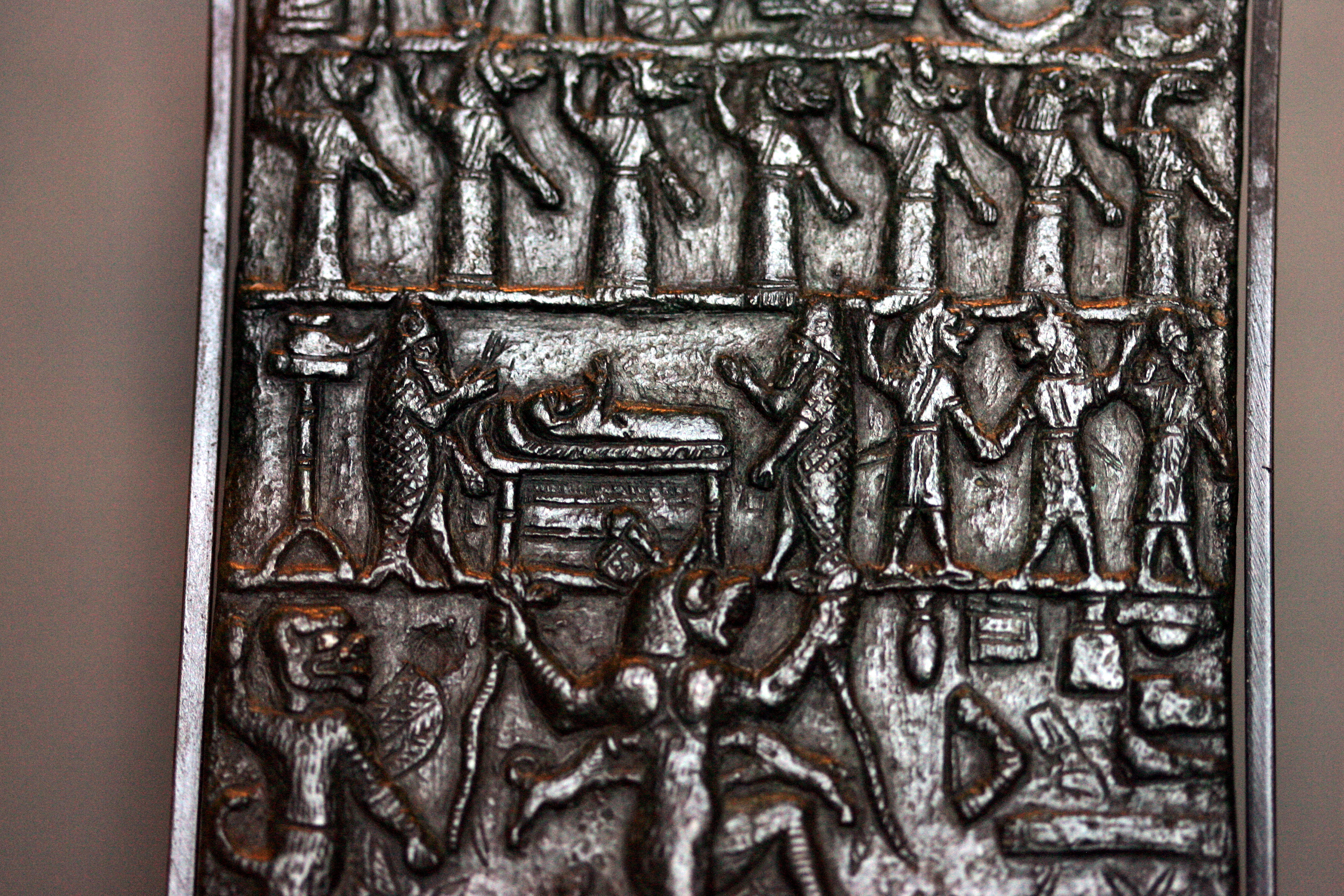 ArtistUnknownDescription Protection plaque against Lamashtu [1] Neo-Assyrian era Bronze Dimensions3.80 cm high, 8.80 wide, 2.50 cm deepCurrent location (Inventory)Louvre Museum Native nameMusée du LouvreLocationParisCoordinates48° 51′ 37″ N, 2° 20′ 15″ E Established1793Website control : Q19675 VIAF: 257711507 ISNI: 0000 0001 2260 177X ULAN: 500125189 LCCN: n80020283 NLA: 35912436 WorldCat Richelieu, Rez-de-chaussée, Mésopotamie - Syrie du Nord. Assyrie : Til Barsip, Arslan Tash, Nimrud, Ninive, Salle 6Accession numberAO 22205Source/PhotographerRama Protection plaque against Lamashtu [1] Neo-Assyrian era Bronze